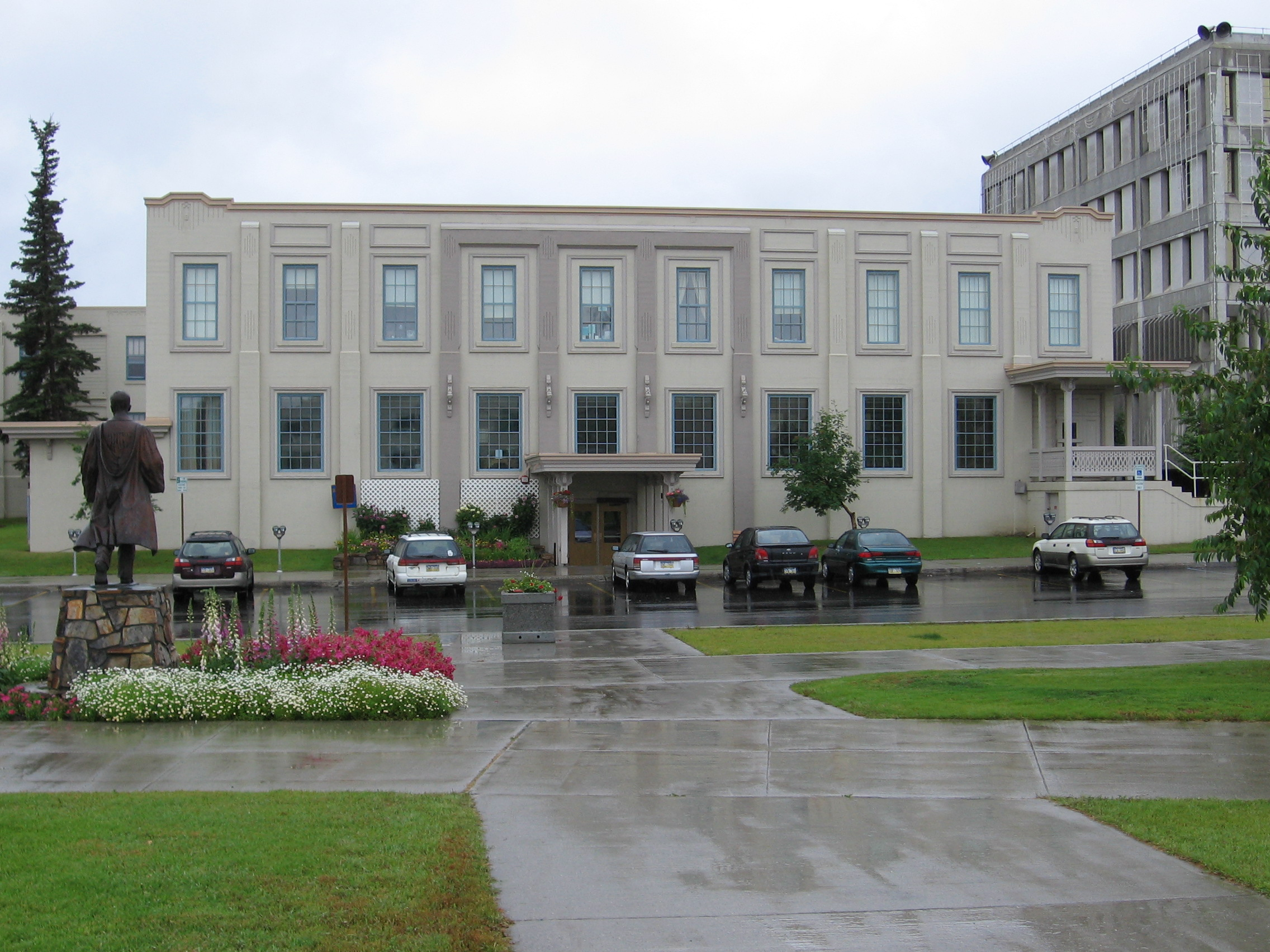 Signers' Hall on the UAF campus. The Alaskan Constitution was signed in this building. Taken by me Summer 2006.